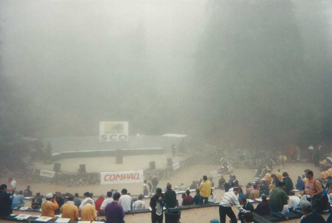 A typical sight at the SCO Forum conference: the quarry amphitheater encompassed by fog during morning keynote addresses. Here the Wednesday morning of Forum97, at the University of California, Santa Cruz.